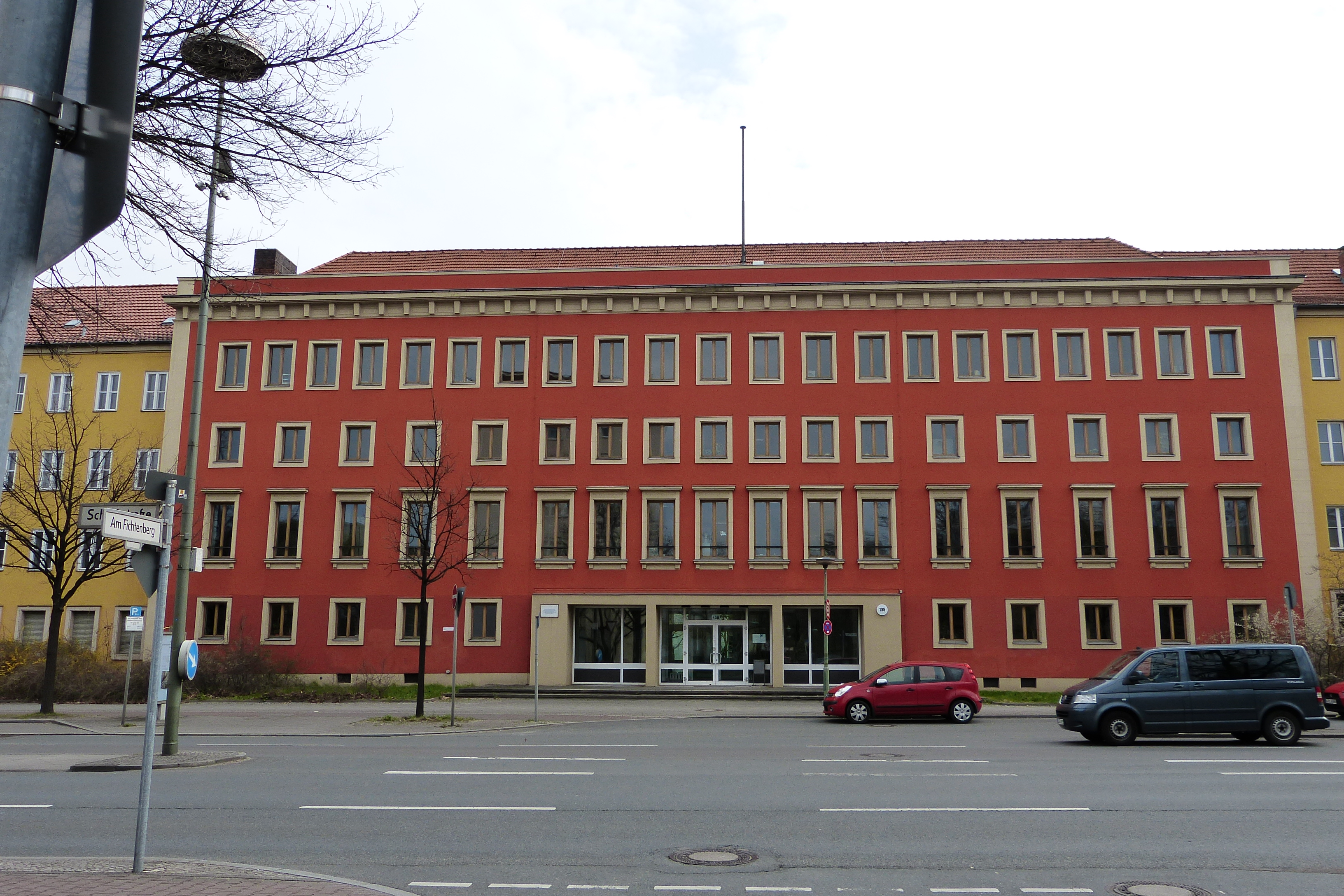 Berlin-Lichterfelde, Unter den Eichen 129-135; former „SS-Wirtschafts- und Verwaltungsamt“ (SS-Economic and Administrative Office) Koordinate:52°27′9″N 13°18′47″E / 52.4525°N 13.31306°E